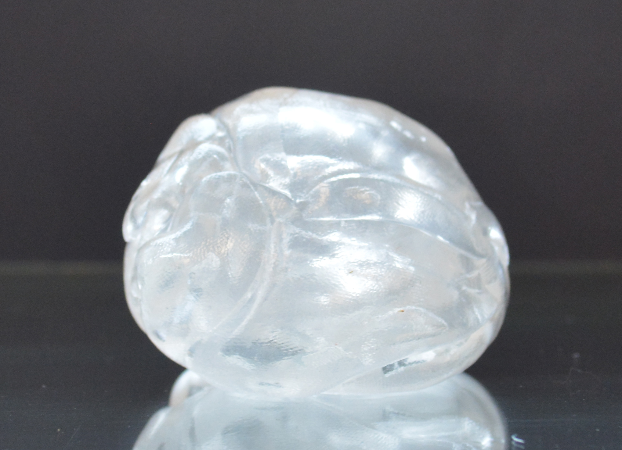 This is a sample of silicone molded into a ball.